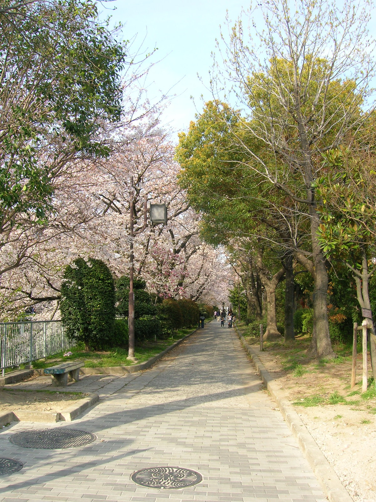 Goyōsui-ato Gaien (Goyōsui-ato means ruins of canal) Loc: Kita-ku, Nagoya city, Aichi Prefecture, Japan. 御用水跡街園 撮影場所 愛知県名古屋市北区